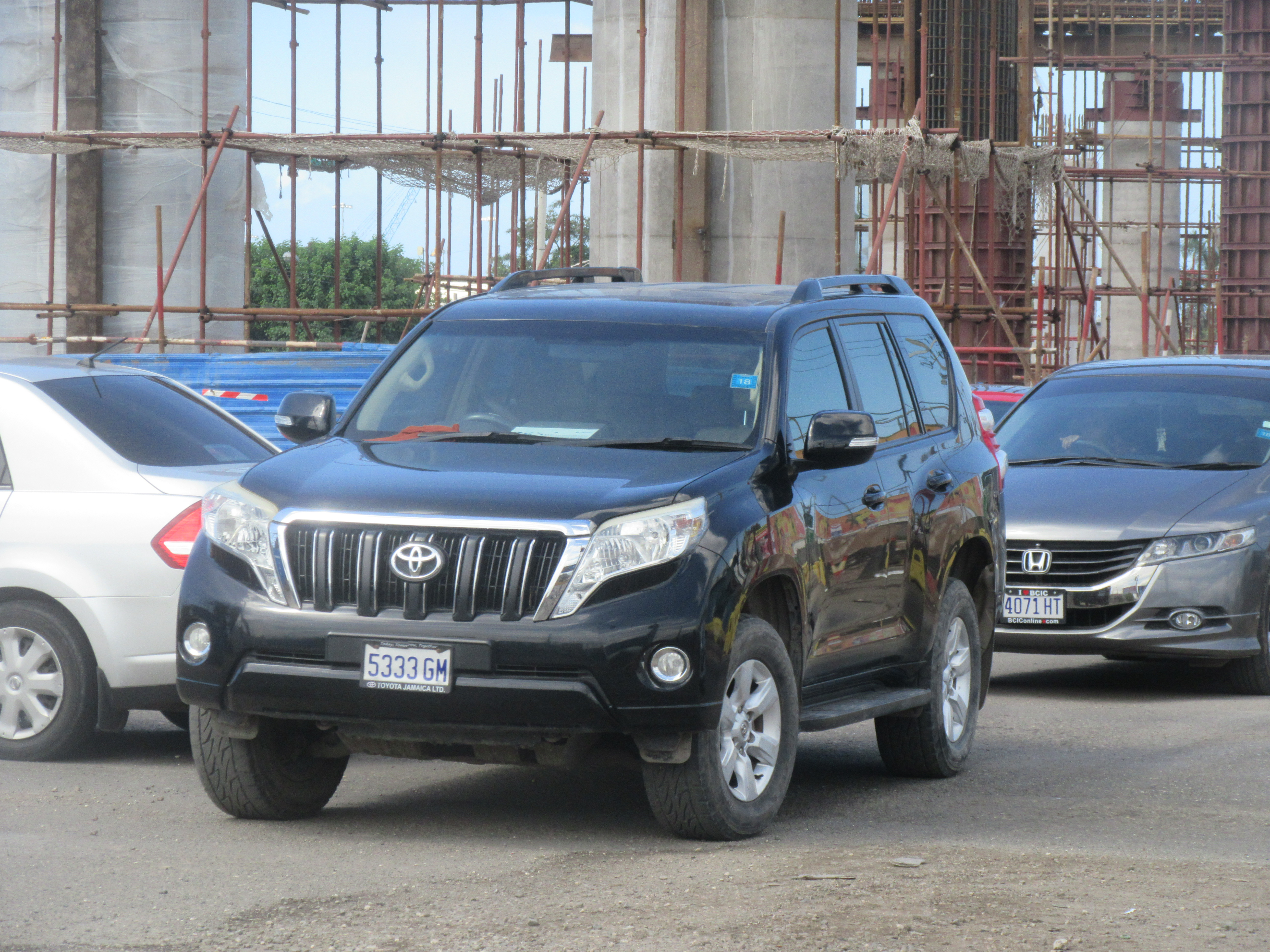 Toyota Land Cruiser Prado (J150) in Jamaica